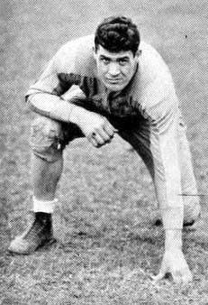 American football player Joe Sydahar during his tenure on West Virginia University team.